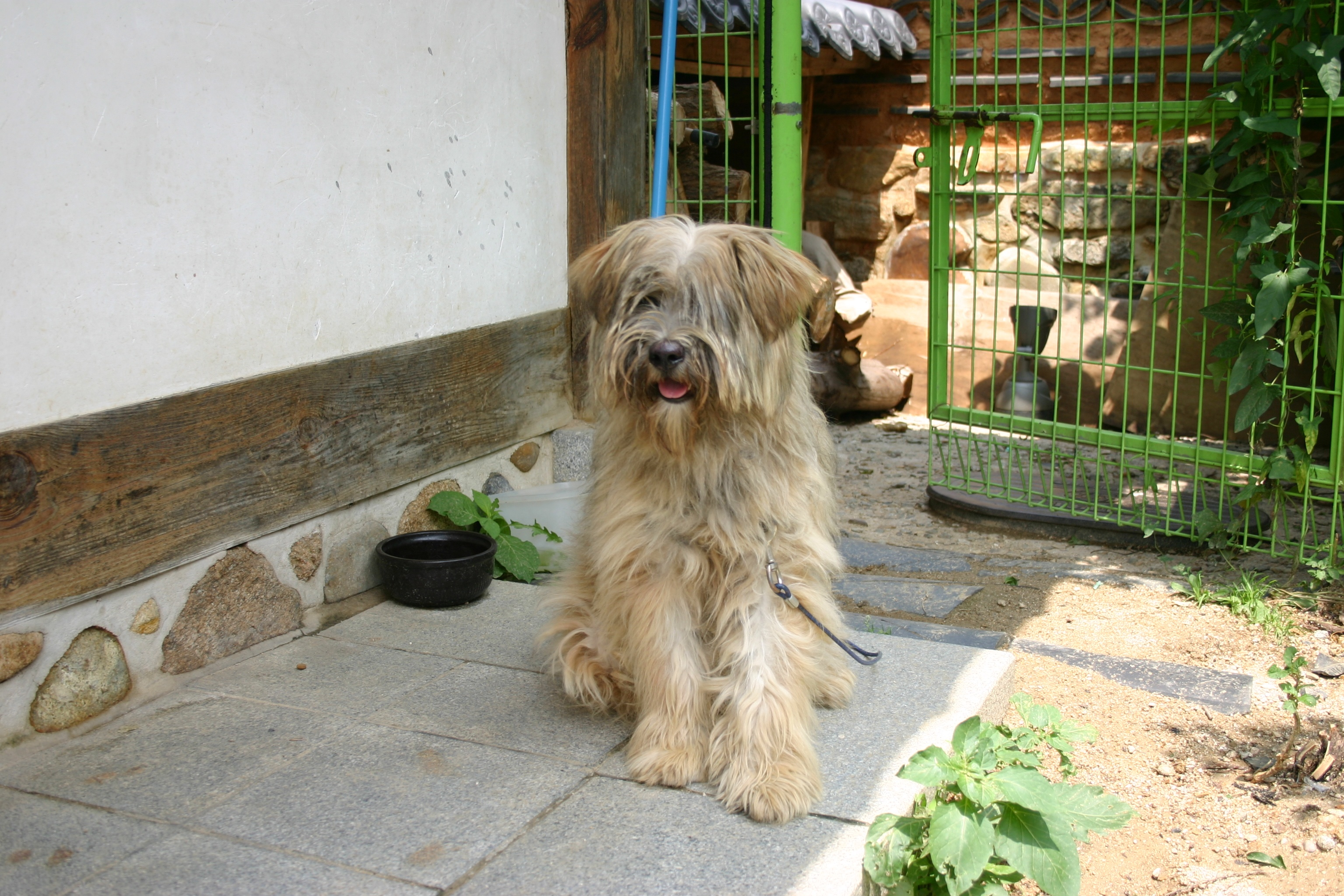 Sapsal dog in front of a Hanok Village in Jeonju, Korea.